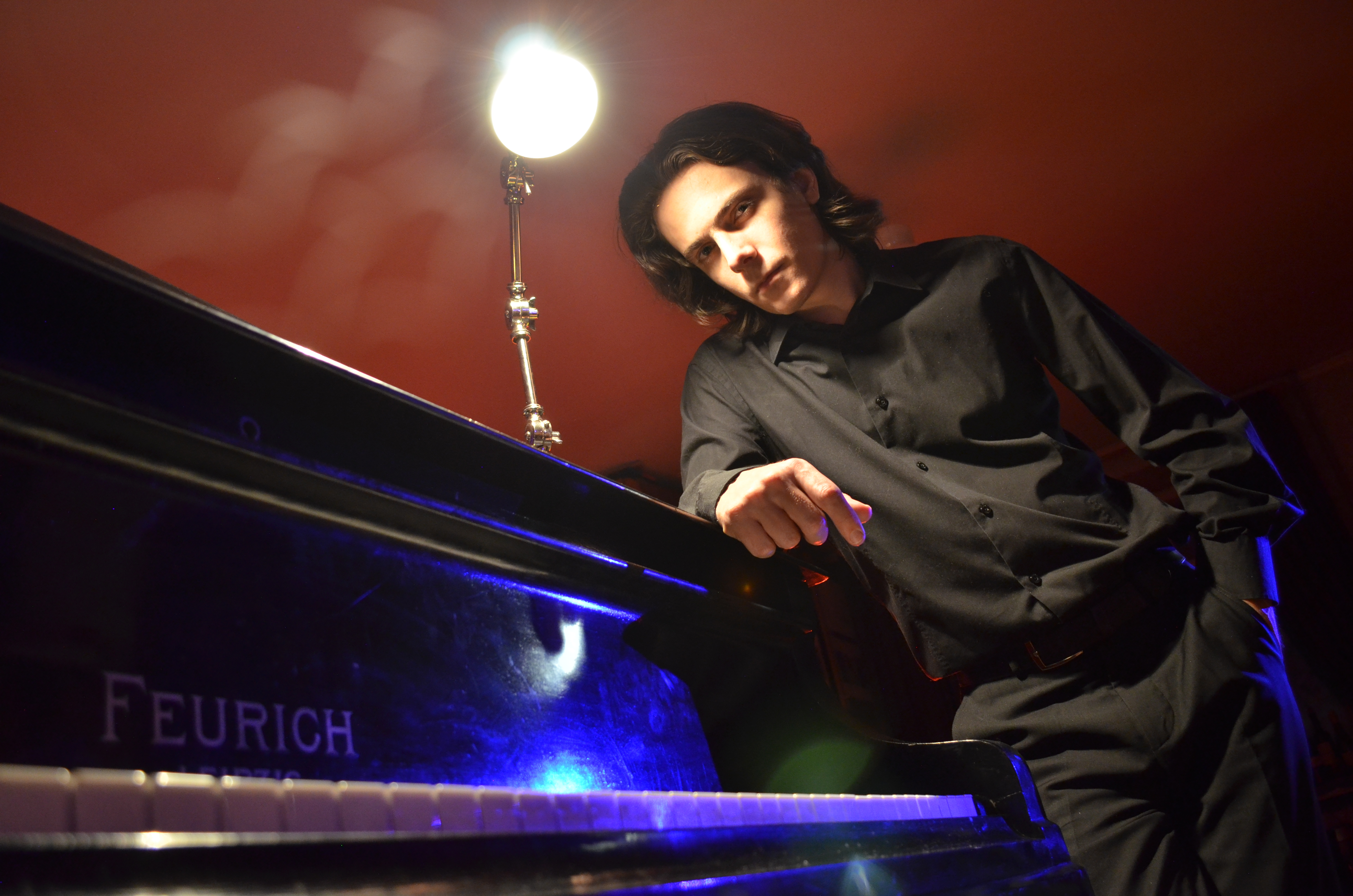 Konstantin Lukinov (* 1989), Russian pianist